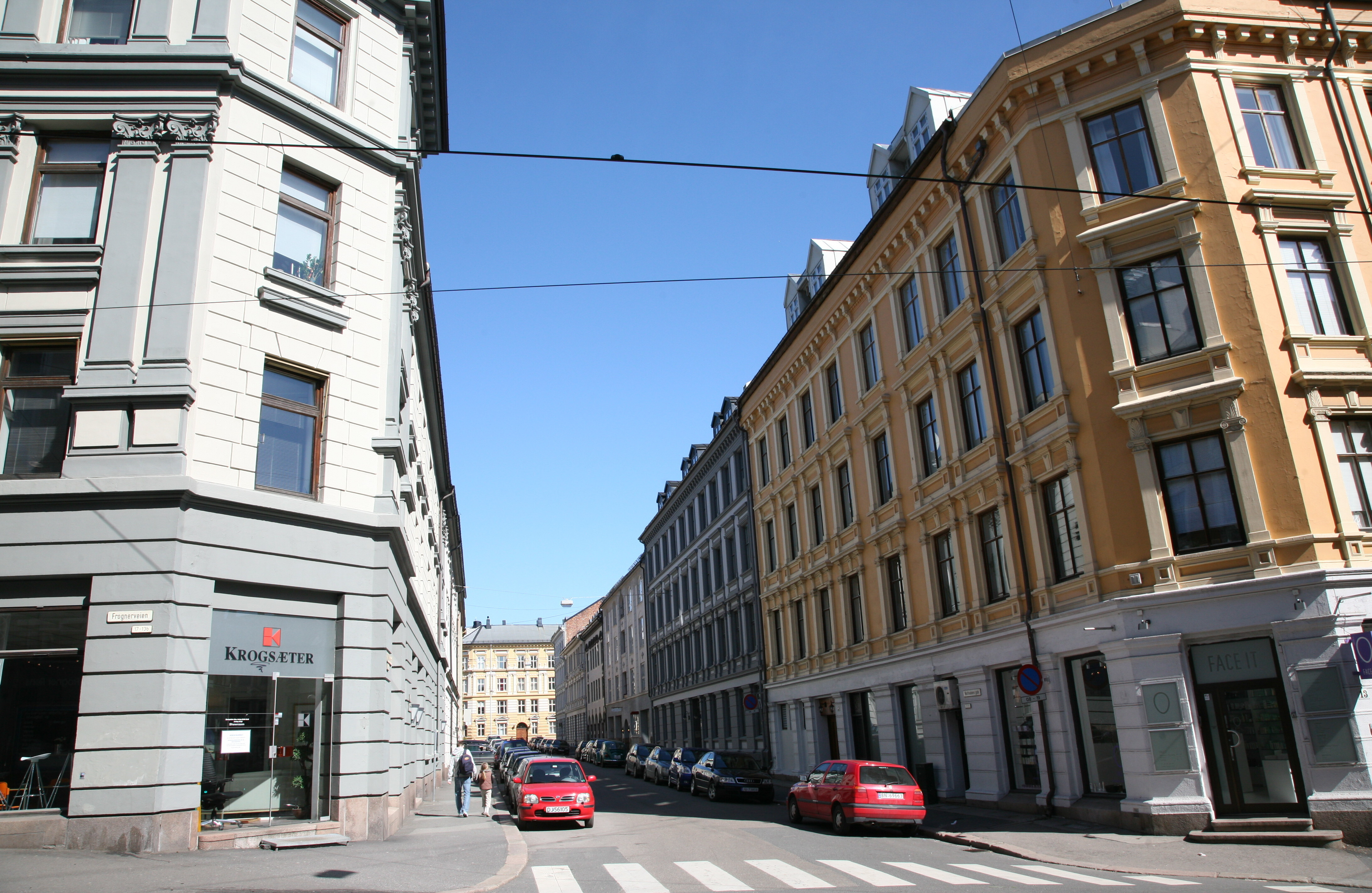 From Haxthausens gate in Oslo